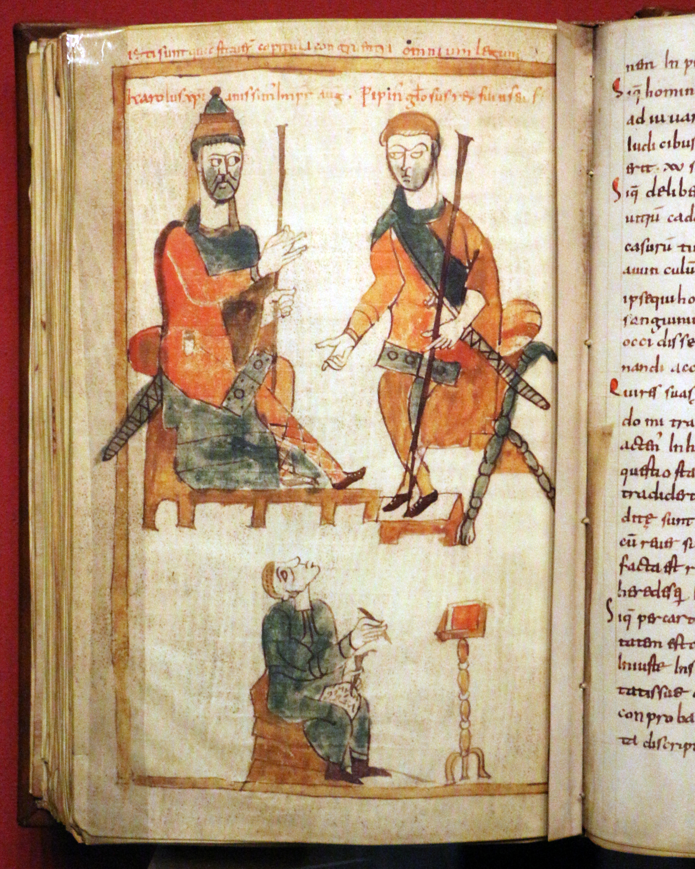 Museo della Cattedrale (Modena)